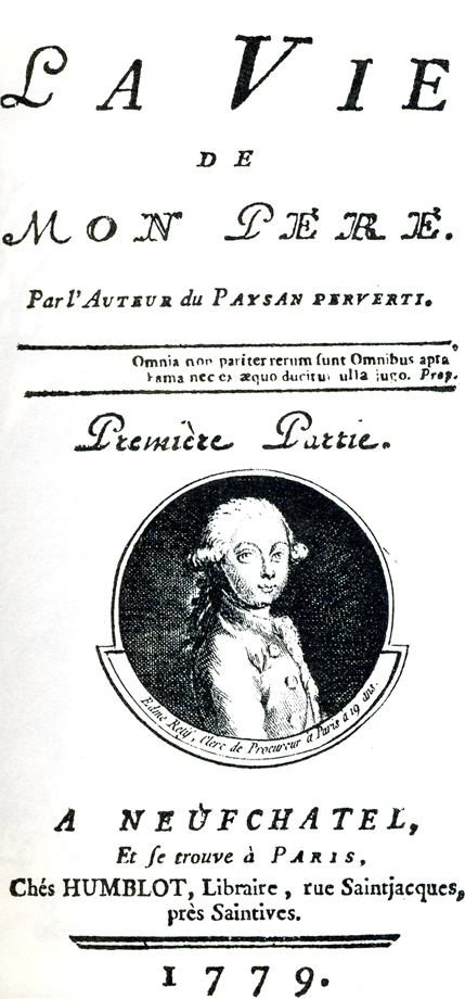 Illustration of My Father's Life by Nicolas Edme Restif de La Bretonne (1734-1806)